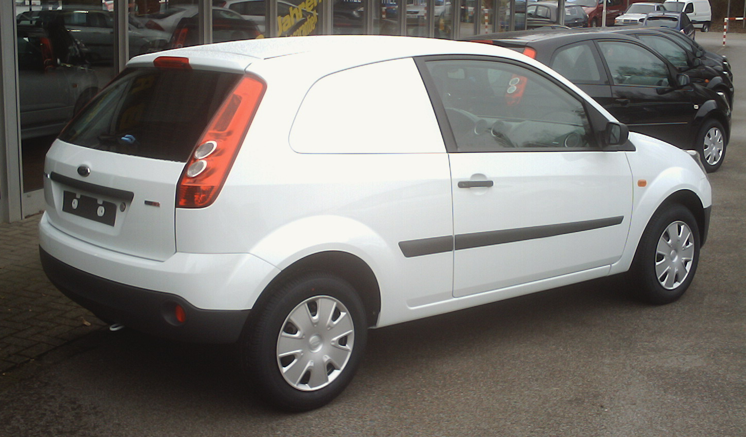 Ford Fiesta Van 1.4 TDCi, Mk.5 / Facelift, from 2007